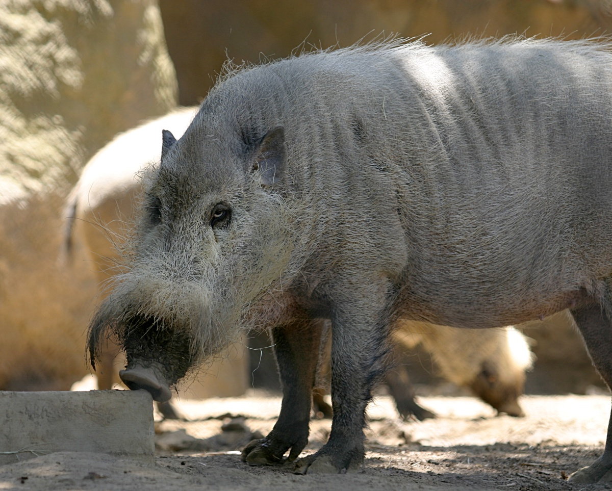 A Bornean Bearded Pig (Sus barbatus barbatus) at the San Diego Zoo in San Diego, California, USA.